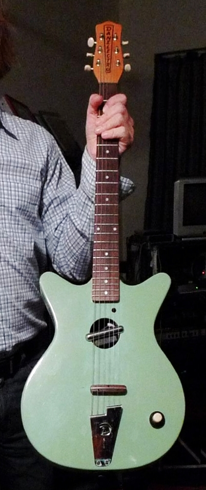 Danelectro Convertible [reissue] (1999) or Convertible Pro (1999 or 2000–2003)